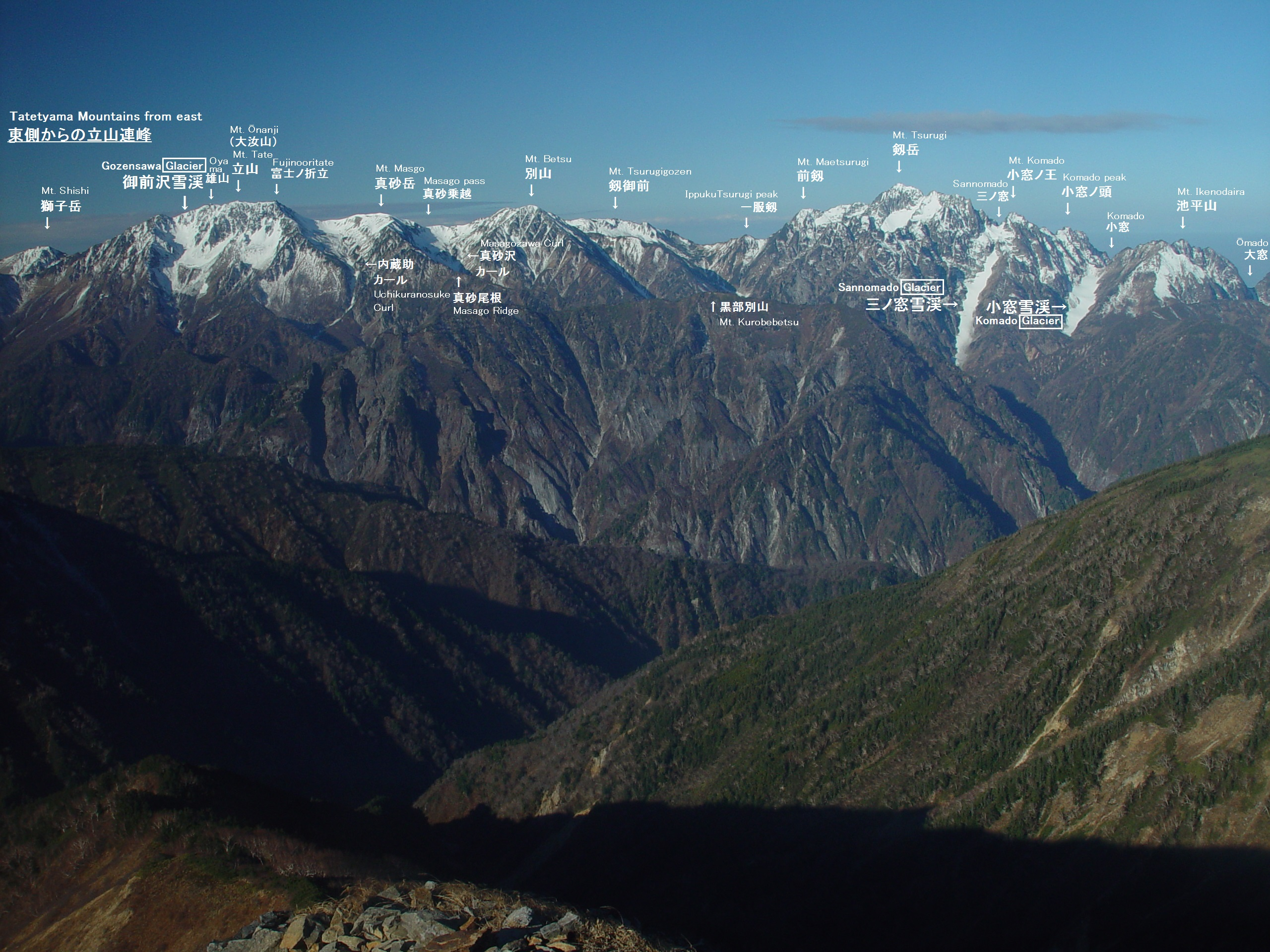 Mount Tate, Mount Masago, Mount Betsu(Bessan), Mount Tsurugigozen and Mount Tsurugi from Mount Nunobiki in Hida Mountains, Japan. There are three Glaciers in Tateyama Mountains. Gozensawa Glacier is on Mount Tate. Sannomado Glacier and Komado Glacier are on Mount Tsurugi.